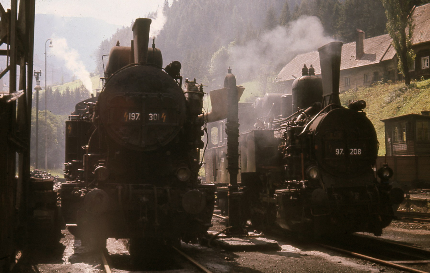 Austrian 0-12-0 and 0-6-2 tank engines with Giesl ejectors, Eisenerz, 1971